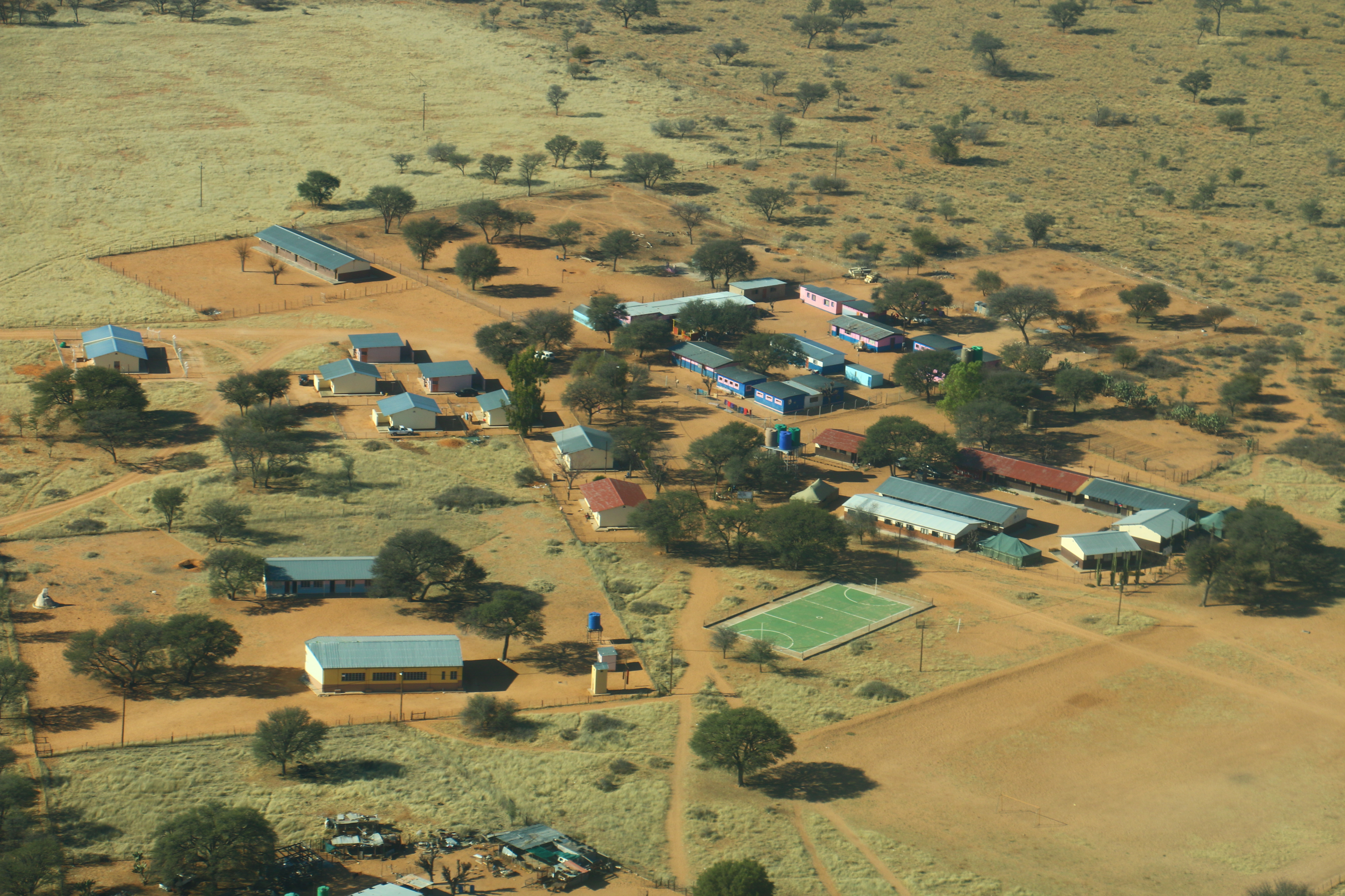 Mphe Thuto School from Bird's eye view